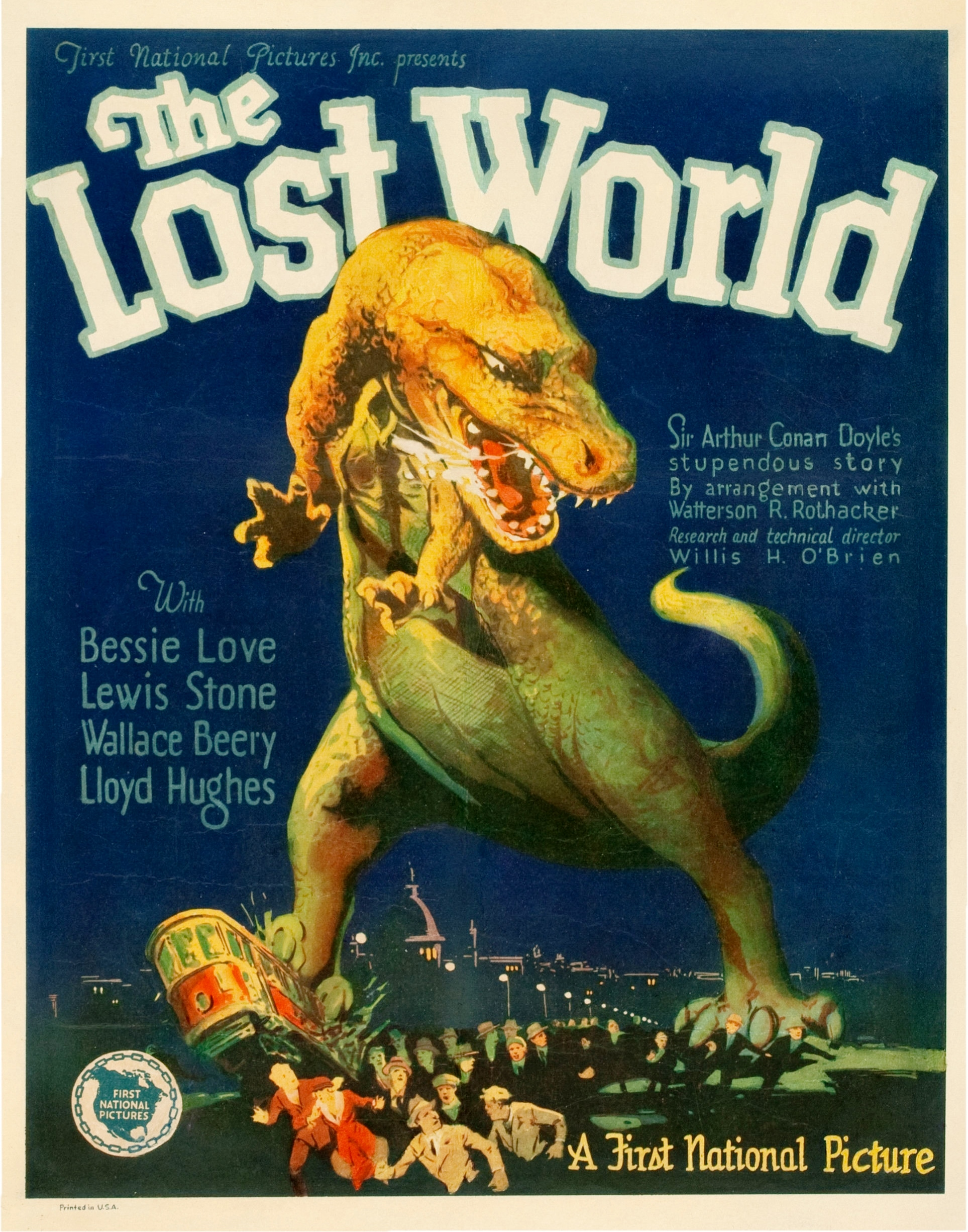 The Lost World (1925) window card.